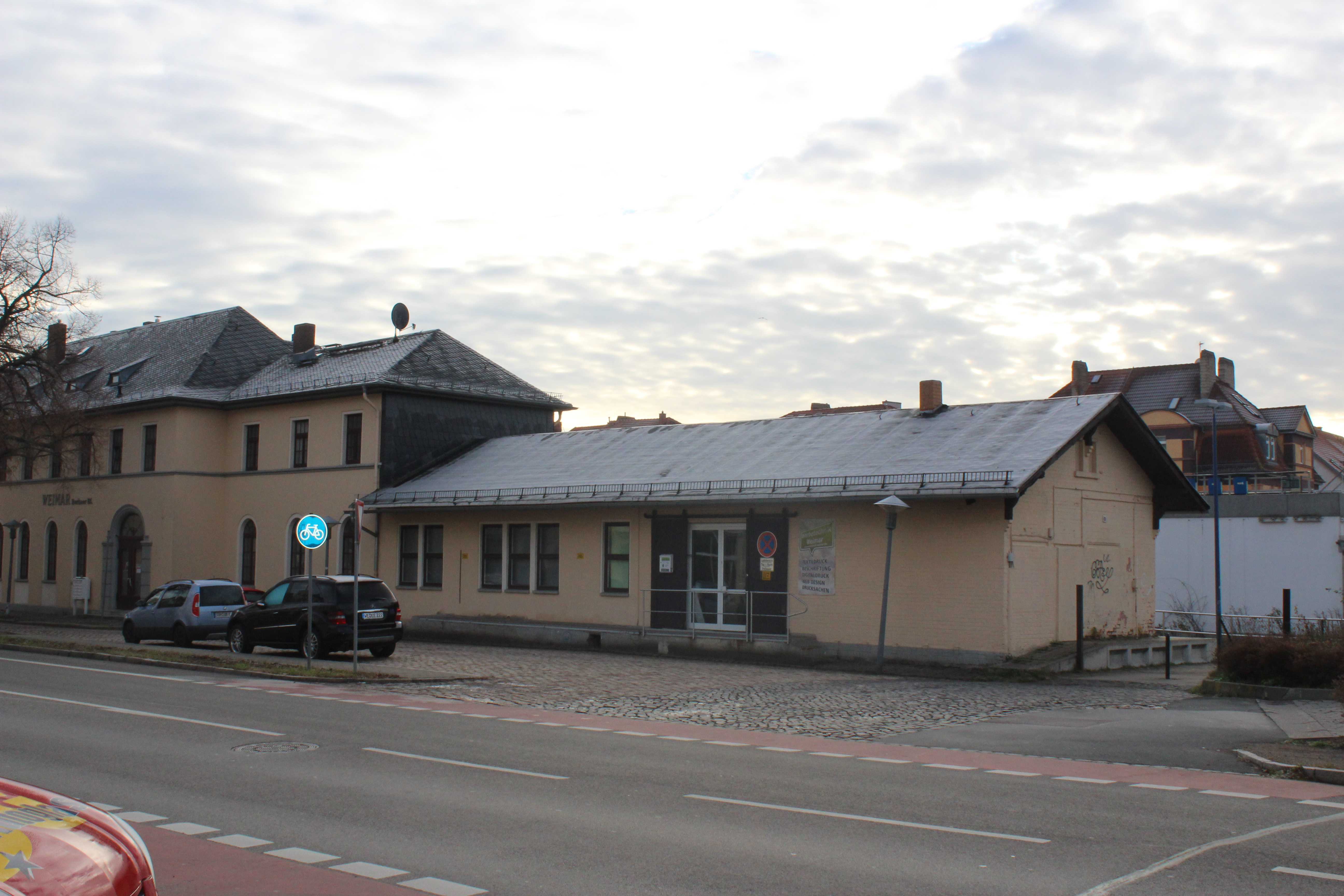 train station Weimar Berkaer Bf, goods shed